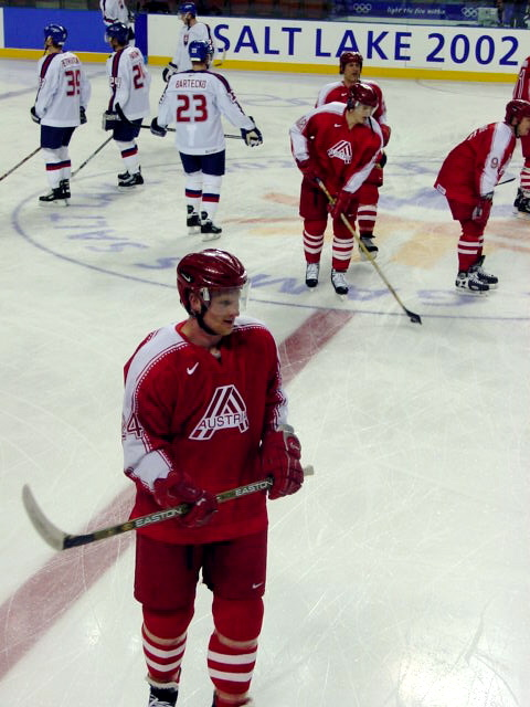 Hockey Game between Austria & Slovakia, Salt Lake City, Olympics 2002. Günter Lanzinger #24